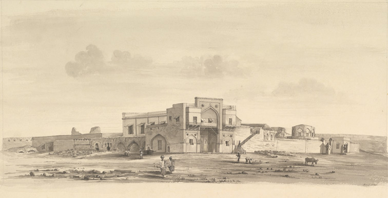 Ahmednagar fort interior